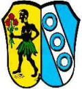 Coat of Arms of Unterpleichfeld